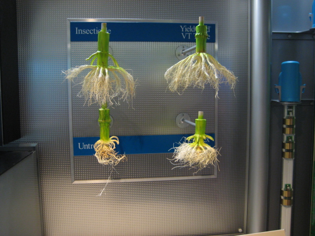 Models of corn/maize roots at Monsanto's MTU (Mobile Technology Unit, a PR tour machine) at UIUC (University of Illinois at Urbana-Champaign), USA